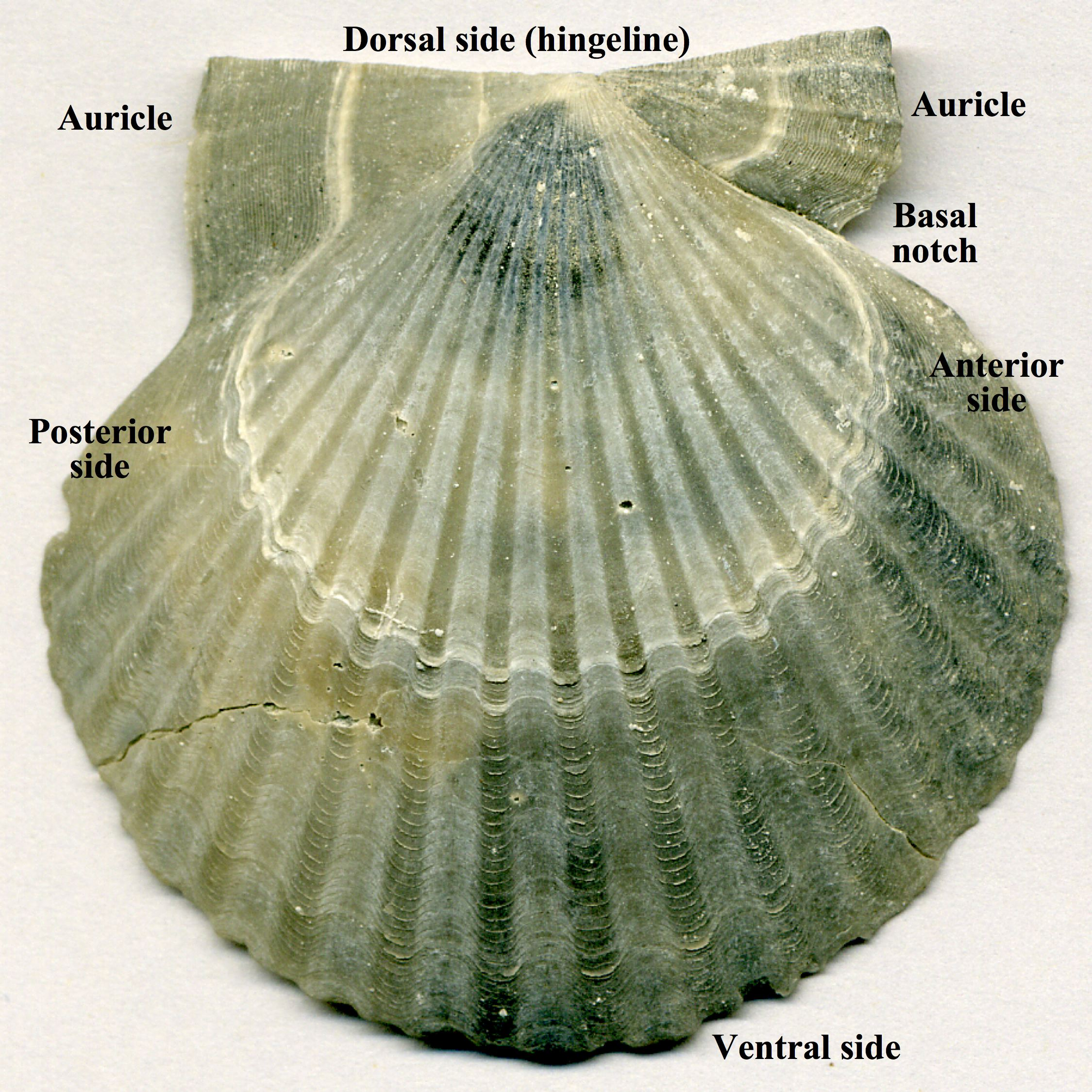 Carolinapecten eboreus (Conrad, 1833) (4.9 cm across at its widest) - this fossil scallop shell is from the Yorktown Formation (Lower to Middle Pliocene) at the Lee Creek Phosphate Mine (southern shore of Pamlico Sound, near Aurora, southern Beaufort County, eastern North Carolina). This is a right valve (anterior is to the right). Classification: Mollusca, Bivalvia, Pteriomorphia, Pterioida, Pteriina, Pectinoidea, Pectinidae Scallops are common marine bivalves in much of the fossil record and in the modern oceans. Individual bivalve shells, unlike brachiopod shells, are asymmetrical. Scallop shells sometimes approach bilateral symmetry, but the subtriangular, wing-like auricles along the hingeline will still display asymmetry. One of the auricles has a basal notch. A notched auricle on the right side of a shell indicates a right valve. A notched auricle on the left side of a shell indicates a left valve.